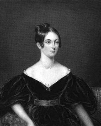 Portrait of Mary Anne Cust Lady Cust (née Boode) (1799–1882), British naturalist and scientific illustrator.